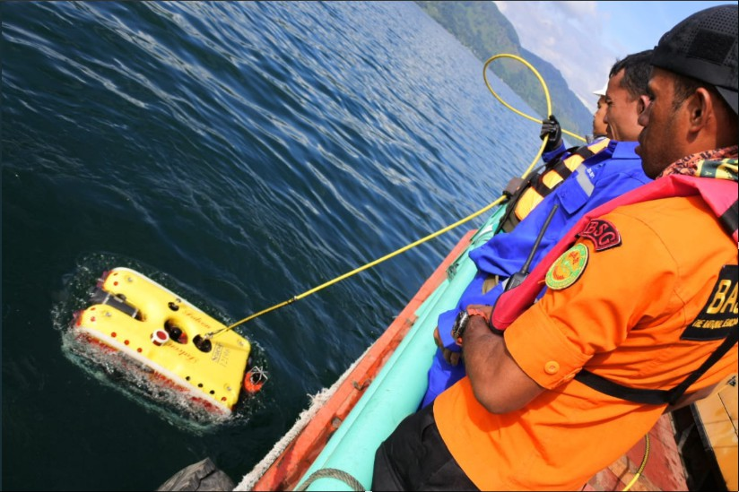 A ROV was used during the search and rescue operation in Lake Toba